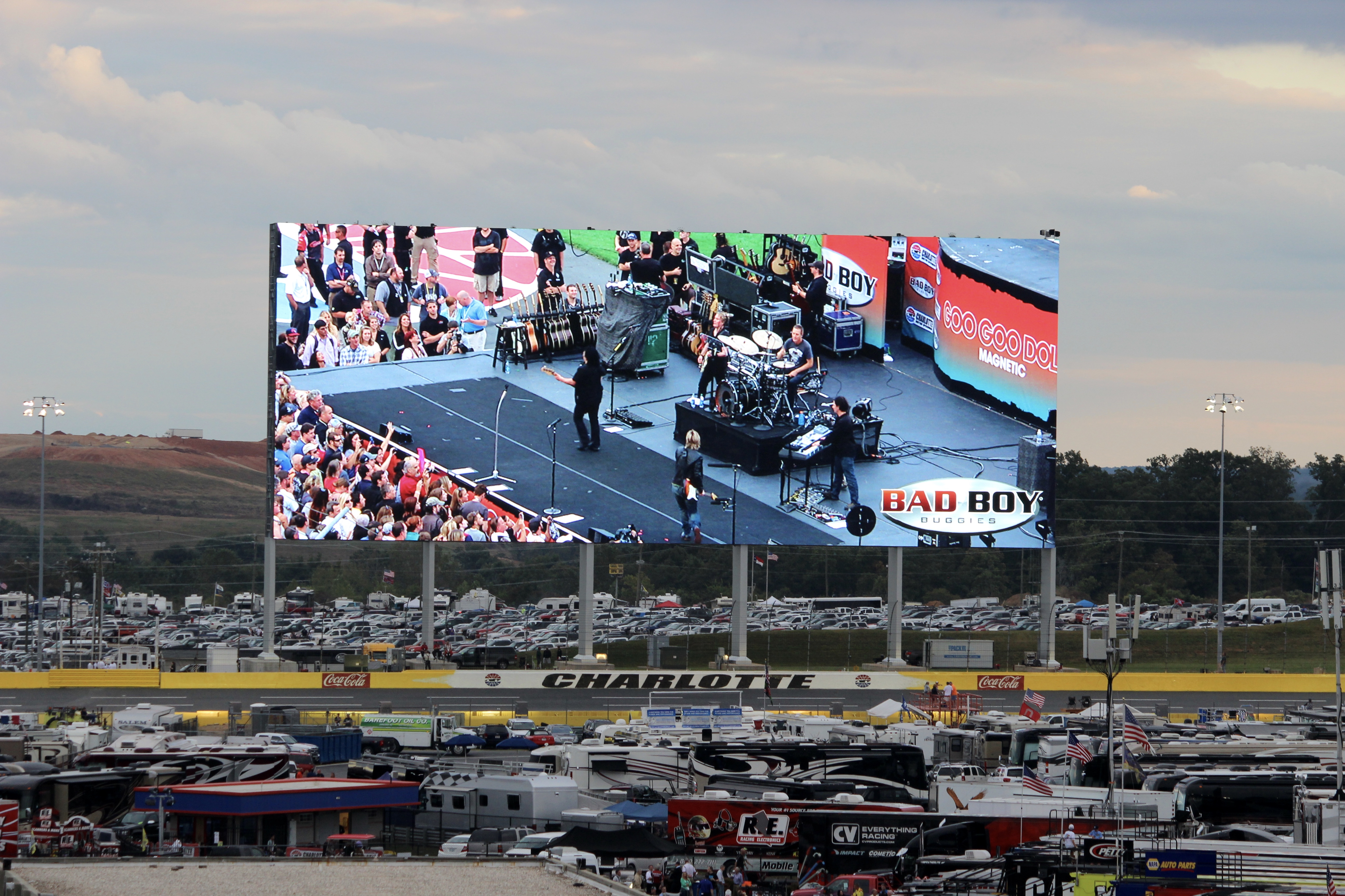 Charlotte Motor Speedway's 200x80 ft video screen as seen from the front stretch in October 2013.